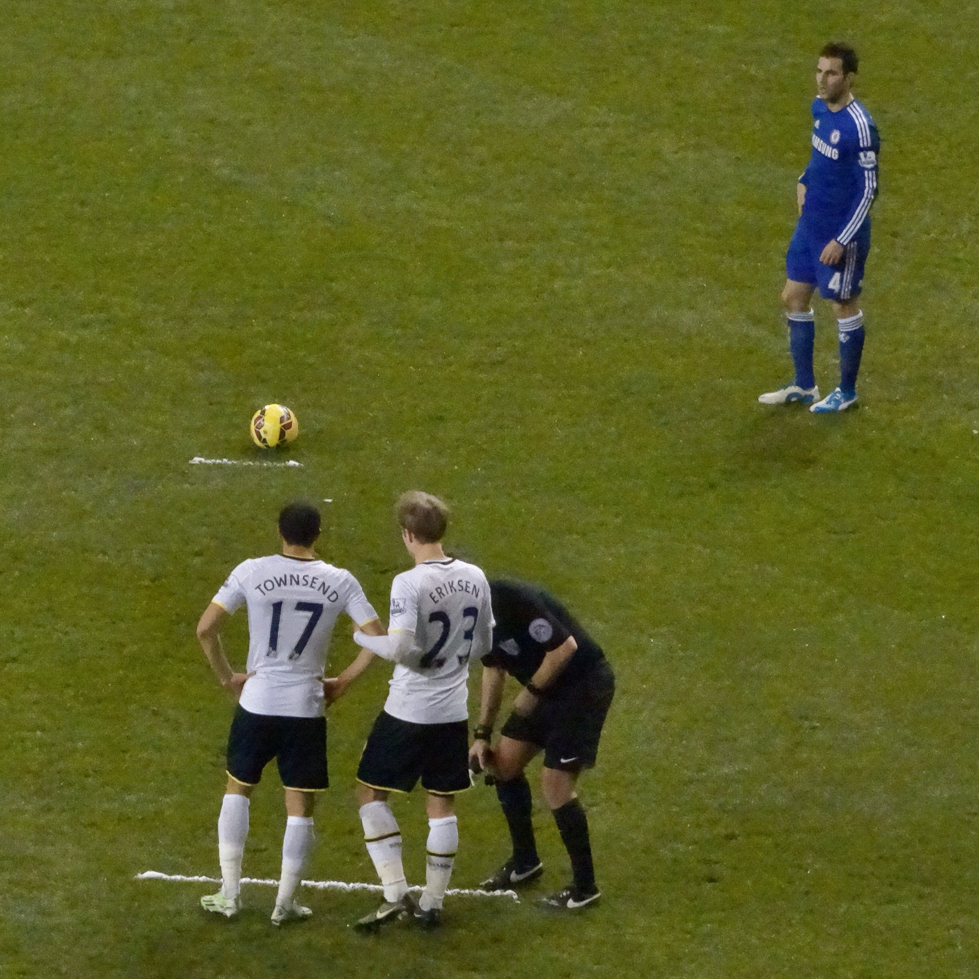 Spurs 5 Chelsea 3 Tottenham 5 Chelsea 3 at White Hart Lane